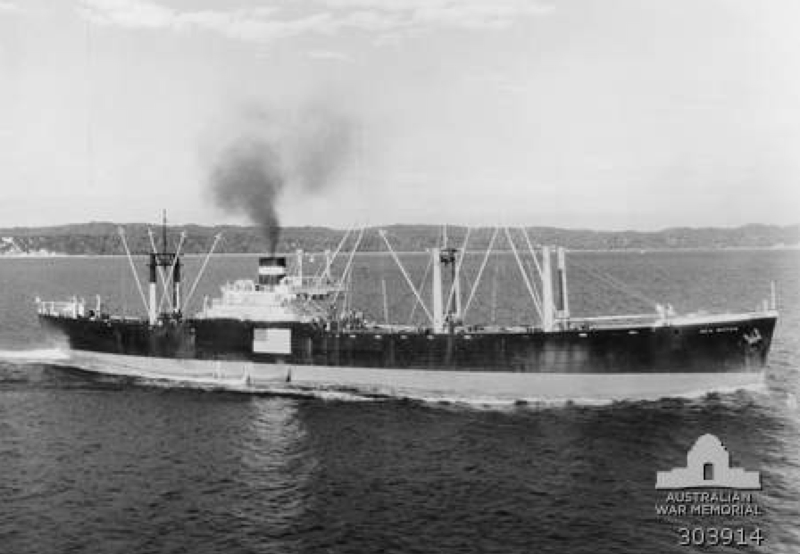 1941-08-05. STARBOARD SIDE VIEW OF THE AMERICAN CARGO VESSEL SEA WITCH. NOTE THE LARGE NATIONAL FLAG PAINTED ON HER SIDE TO PROCLAIM HER NEUTRAL STATUS. IN 1942-02 SHE TRANSPORTED AIRCRAFT TO TJILATJAP IN A VAIN BID TO REINFORCE THE ALLIED AIR FORCES IN JAVA.